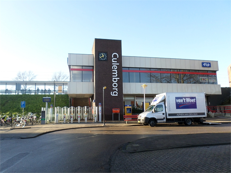 Picture of Culemborg railway station , the Netherlands, after the Kiosk has been replaced by a station living room and the station name CULEMBORG is placed on the facade.